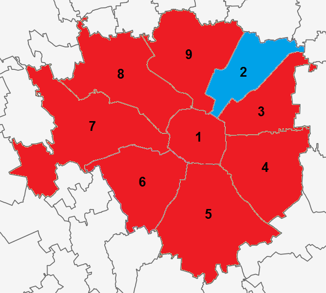 Milan district election.